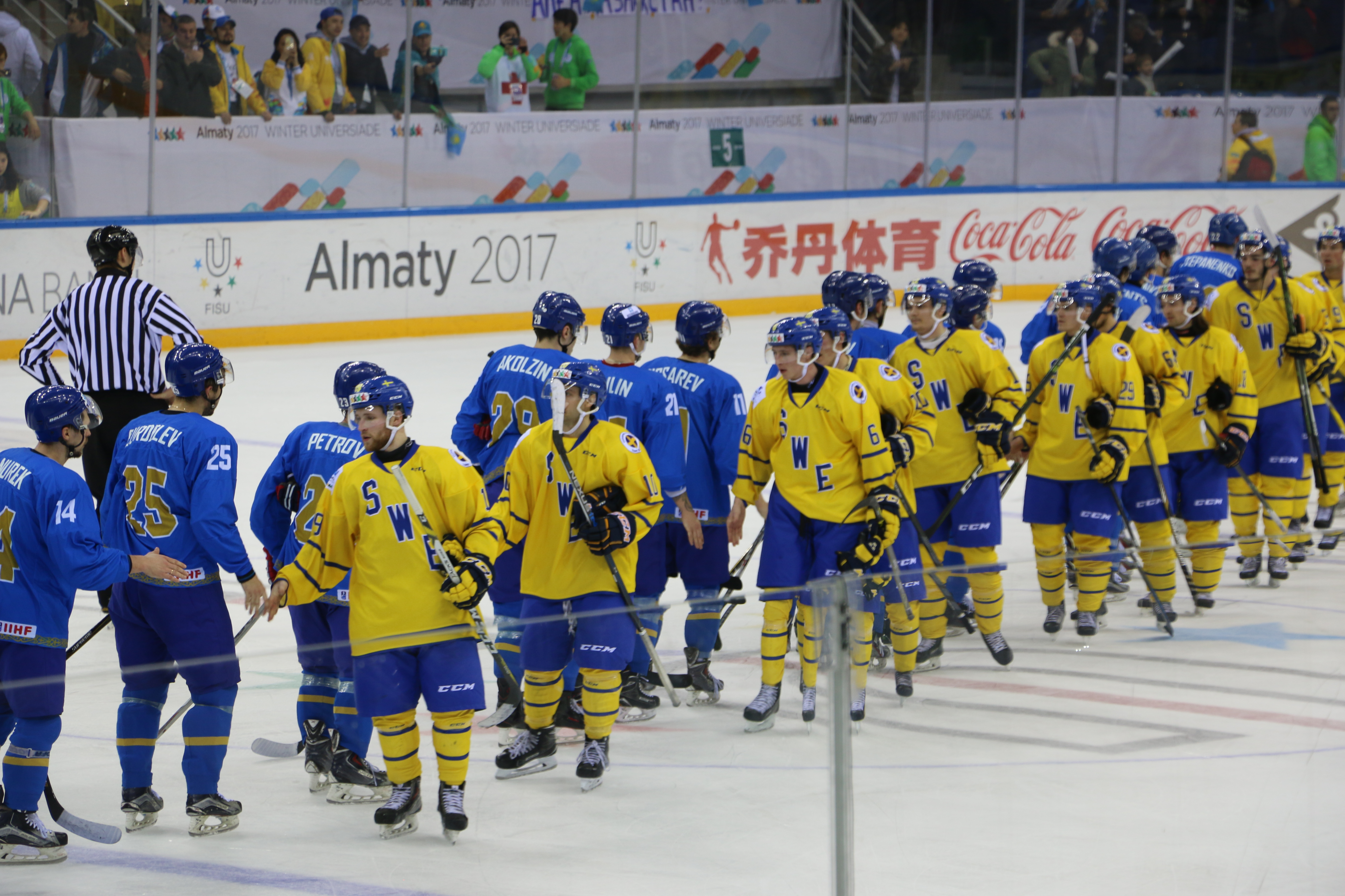 Universiade 2017. Ice hockey. Men. KAZ - SWE